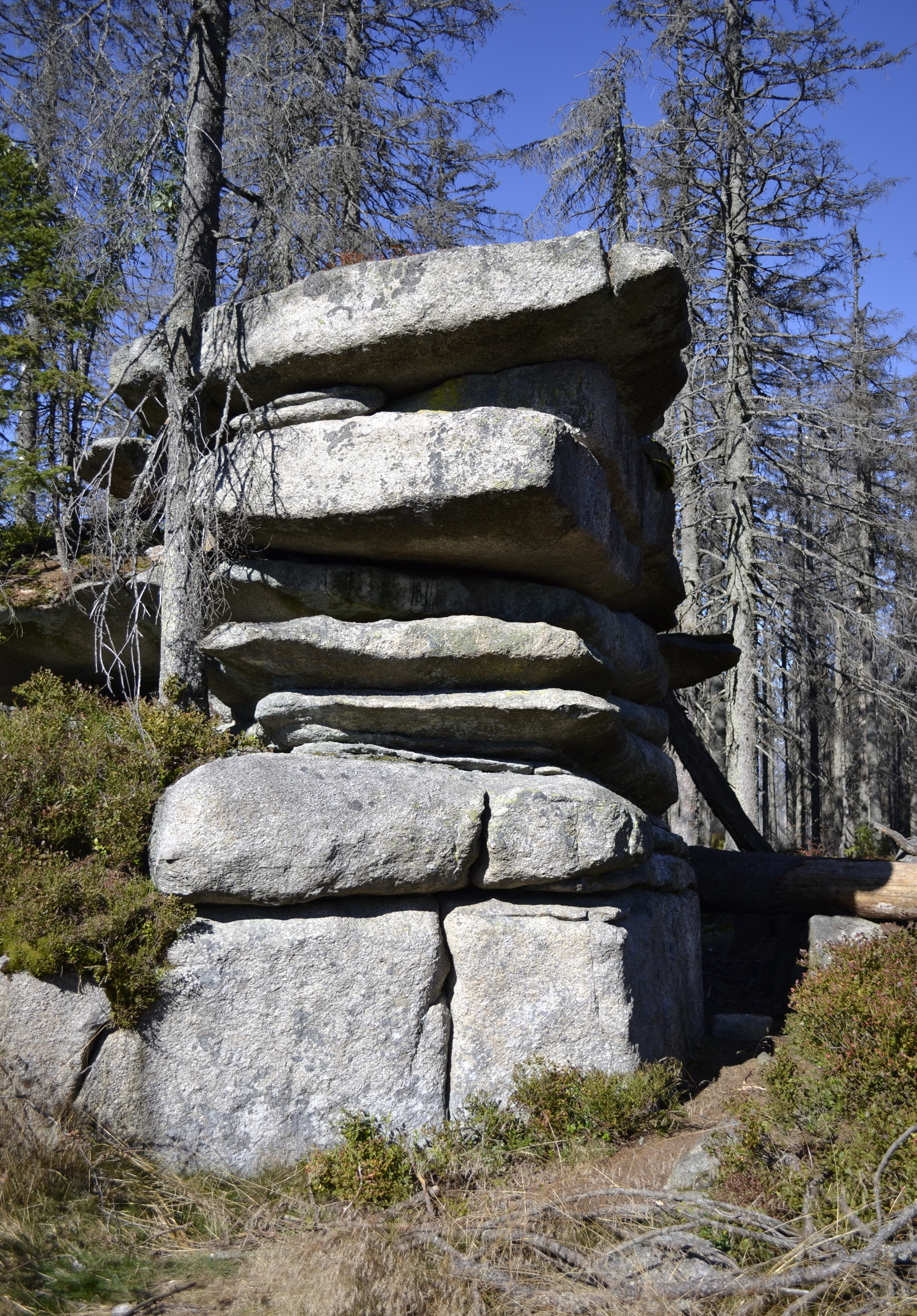 The Bayerischer Plöckenstein, a mountain on the Dreisesselberg crest in Bavaria.